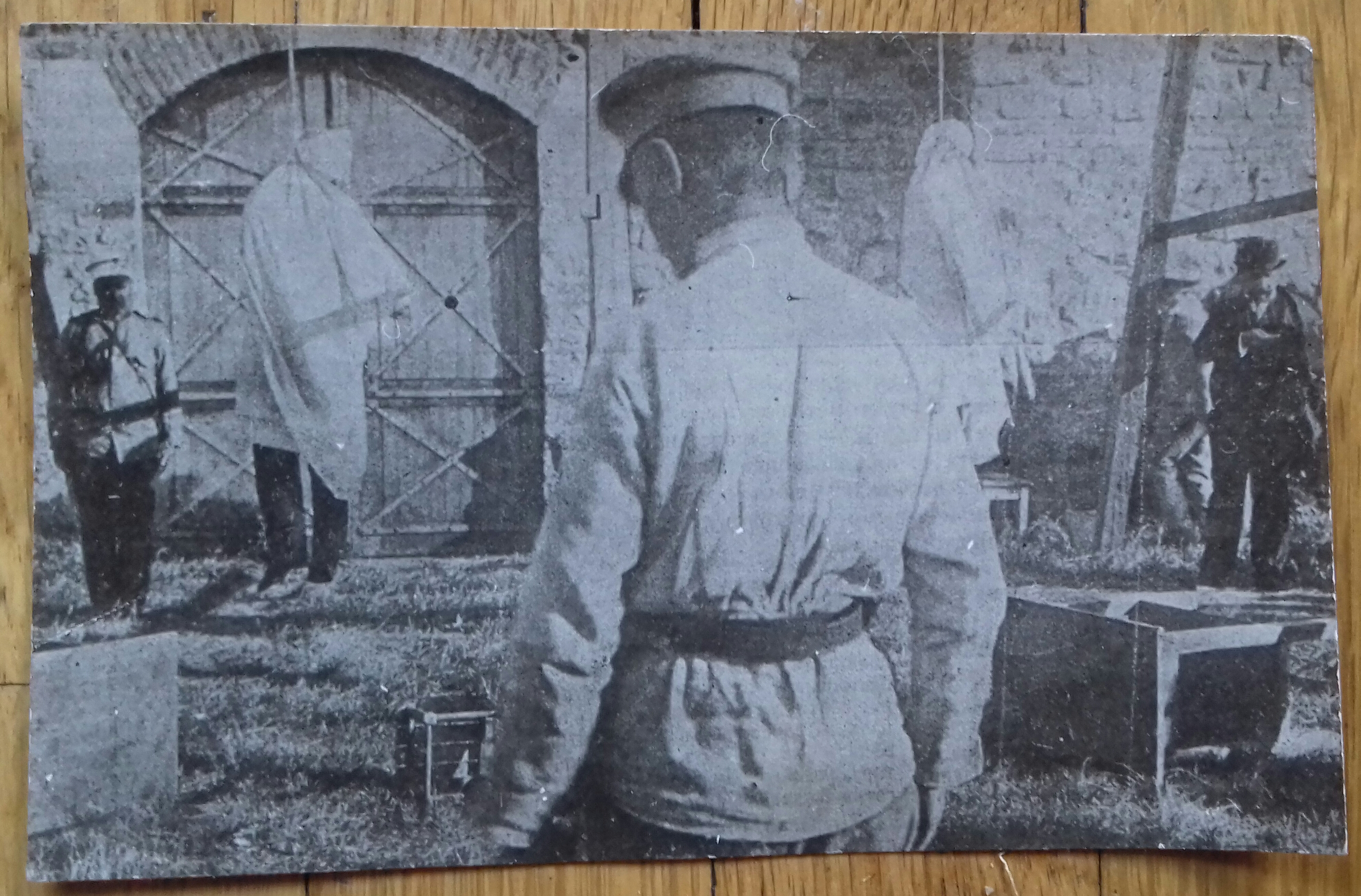 Vikentiy Popanastasov and Hristo Santov Hanged